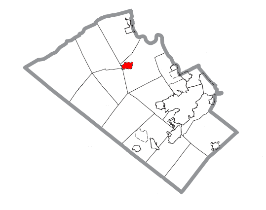 A map of Lehigh County showing Schnecksville highlighted on the map.